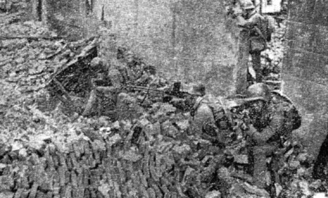 Chinese soldiers taking position in a bombed-out building, Shanghai, China, Oct 1937